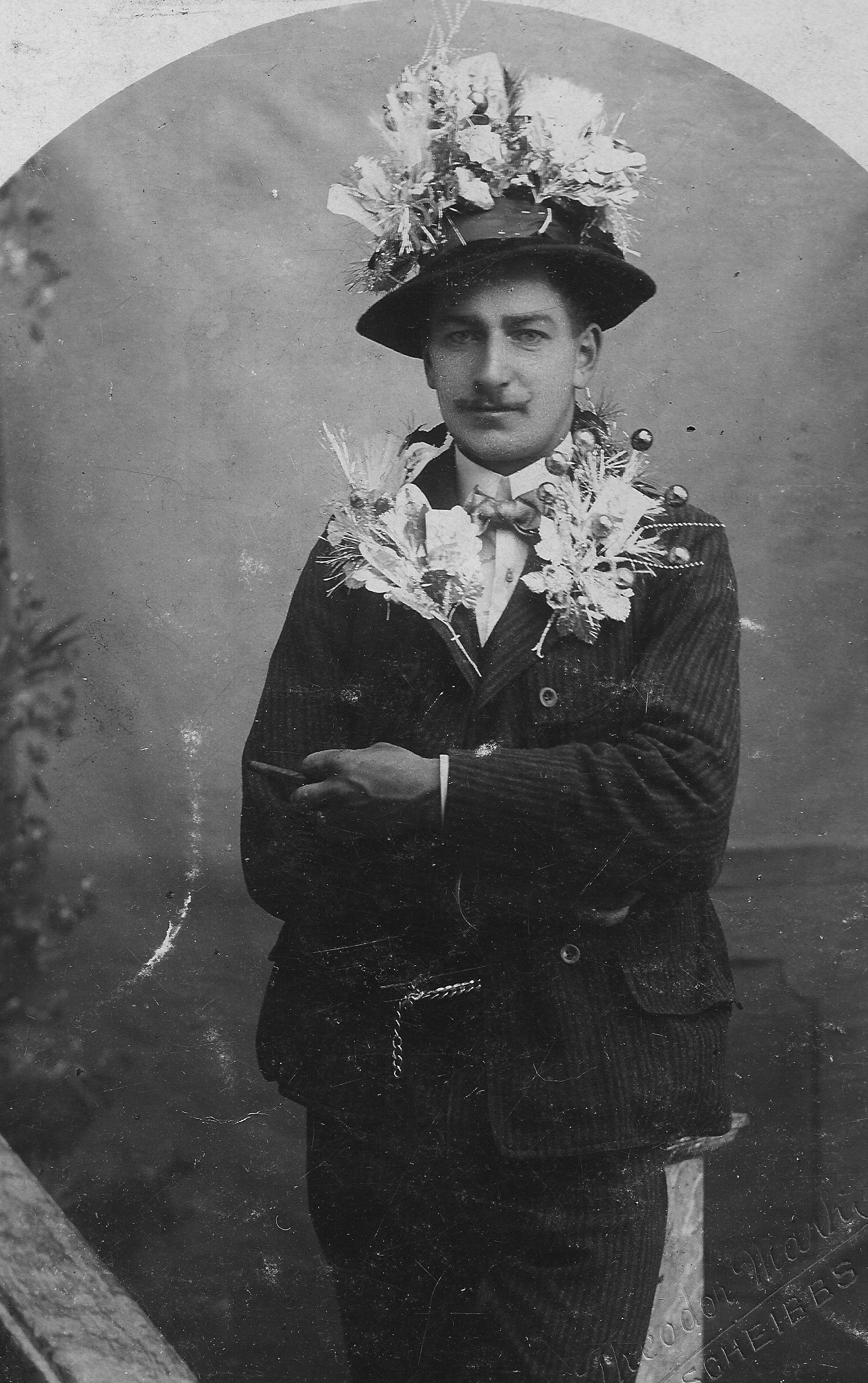 1912-xx-xx Josef Riedl (1889-1948) from Frankenfels at Musterung, Austria